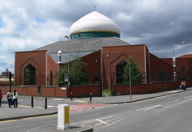 Leicester Central Mosque Corner of Conduit Street and Sparkenhoe Street.